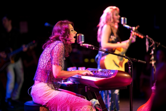 Aly & AJ Michalka's Debut showcase at the Roxy in June 2013.